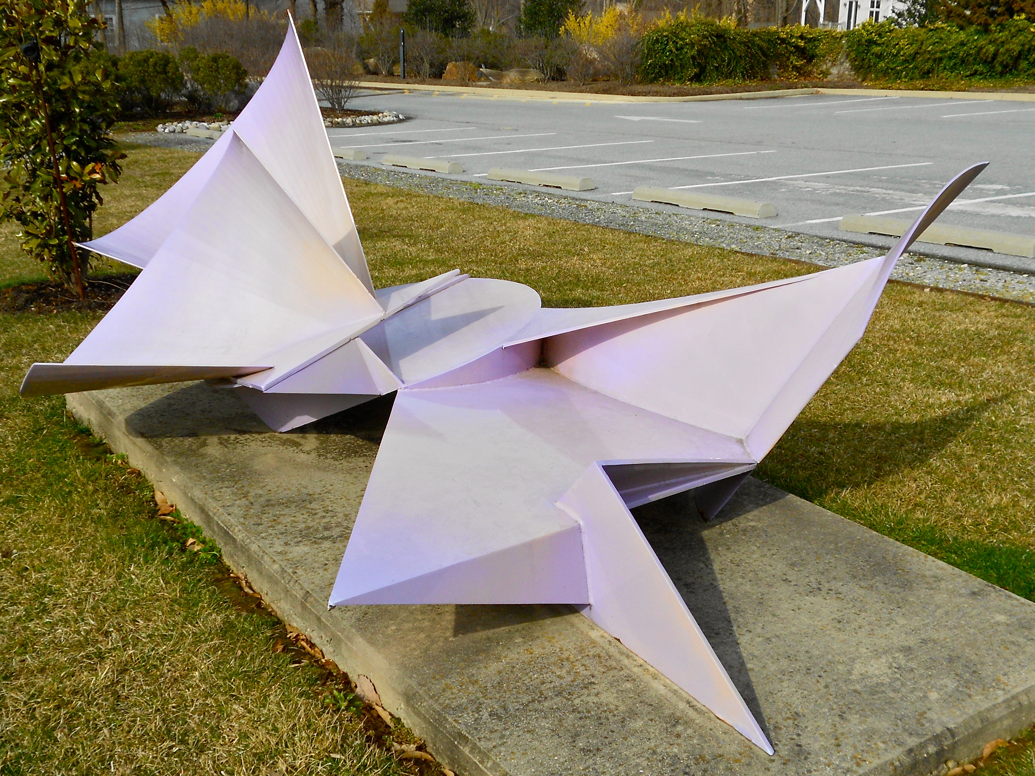 "Wild Iris " completed in 1974 by Isaac Witkin, outside the Delaware Art Museum in Wilmington, Delaware. No visible copyright symbol so now public domain.